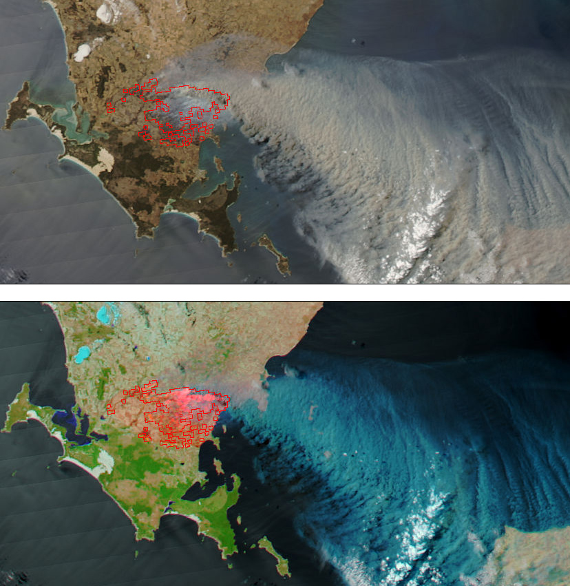 Bushfires on Eyre Peninsula, South Australia January 11 2005.